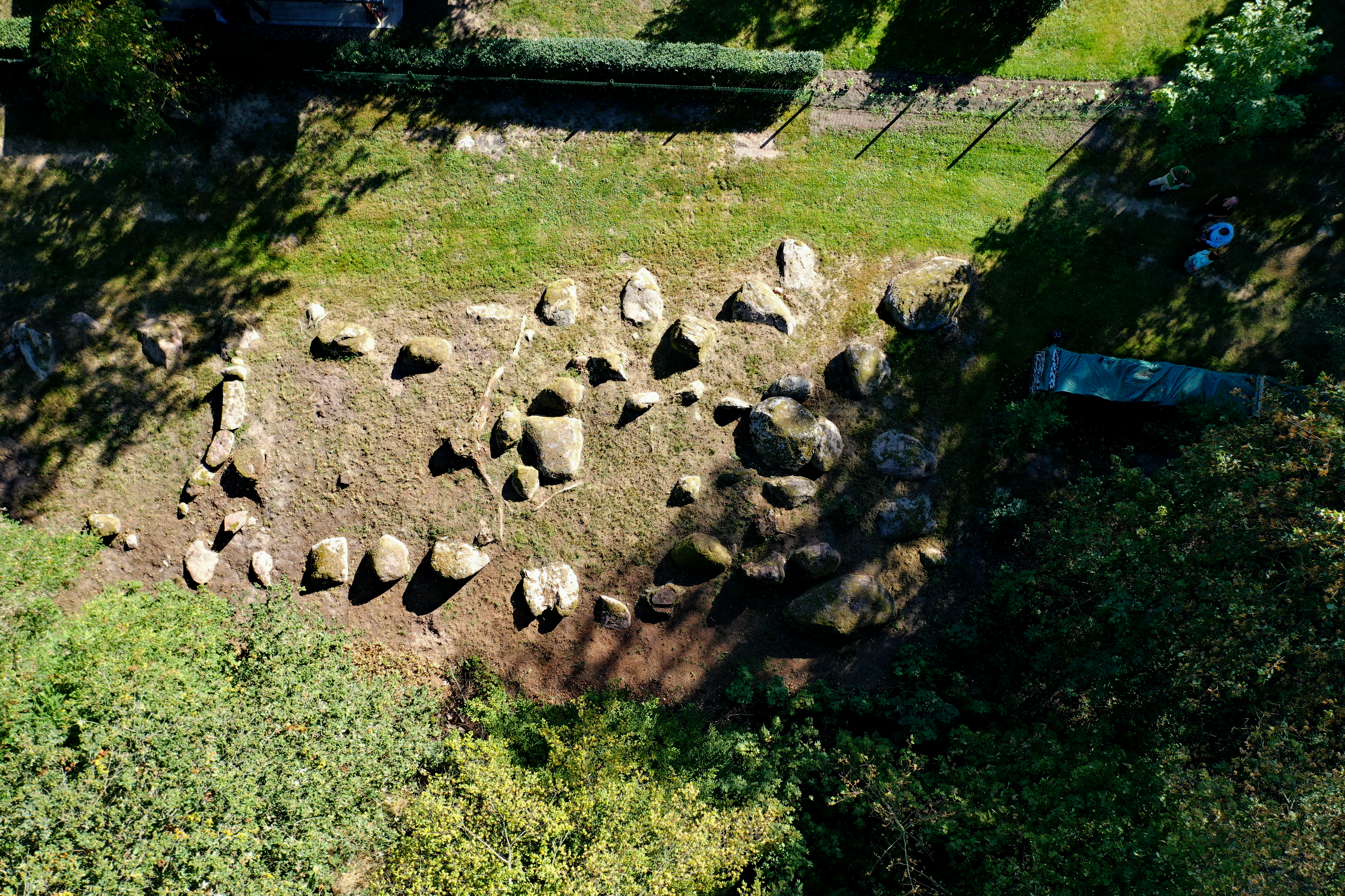 Megalithic in Altmark (Saxony-Anhalt, Germany) Leetze 5